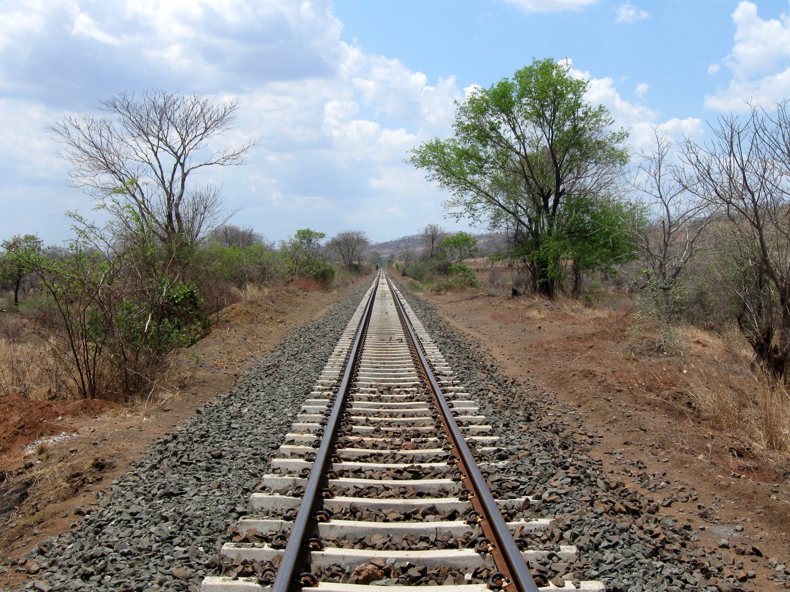 Sena Line, close to Mutarara, Tete province, Mozambique